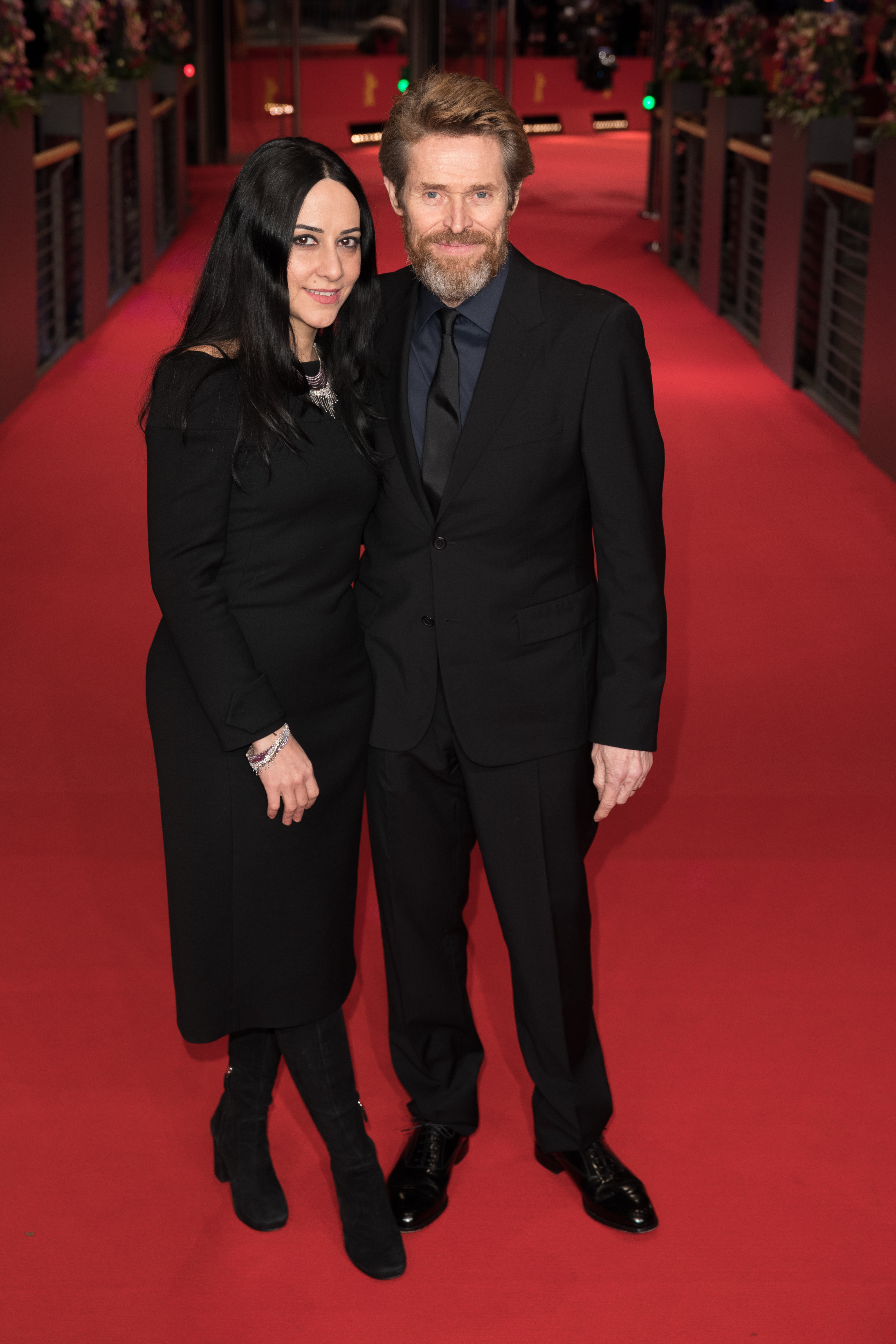 Giada Colagrande and Willem Dafoe at the Berlinale 2018